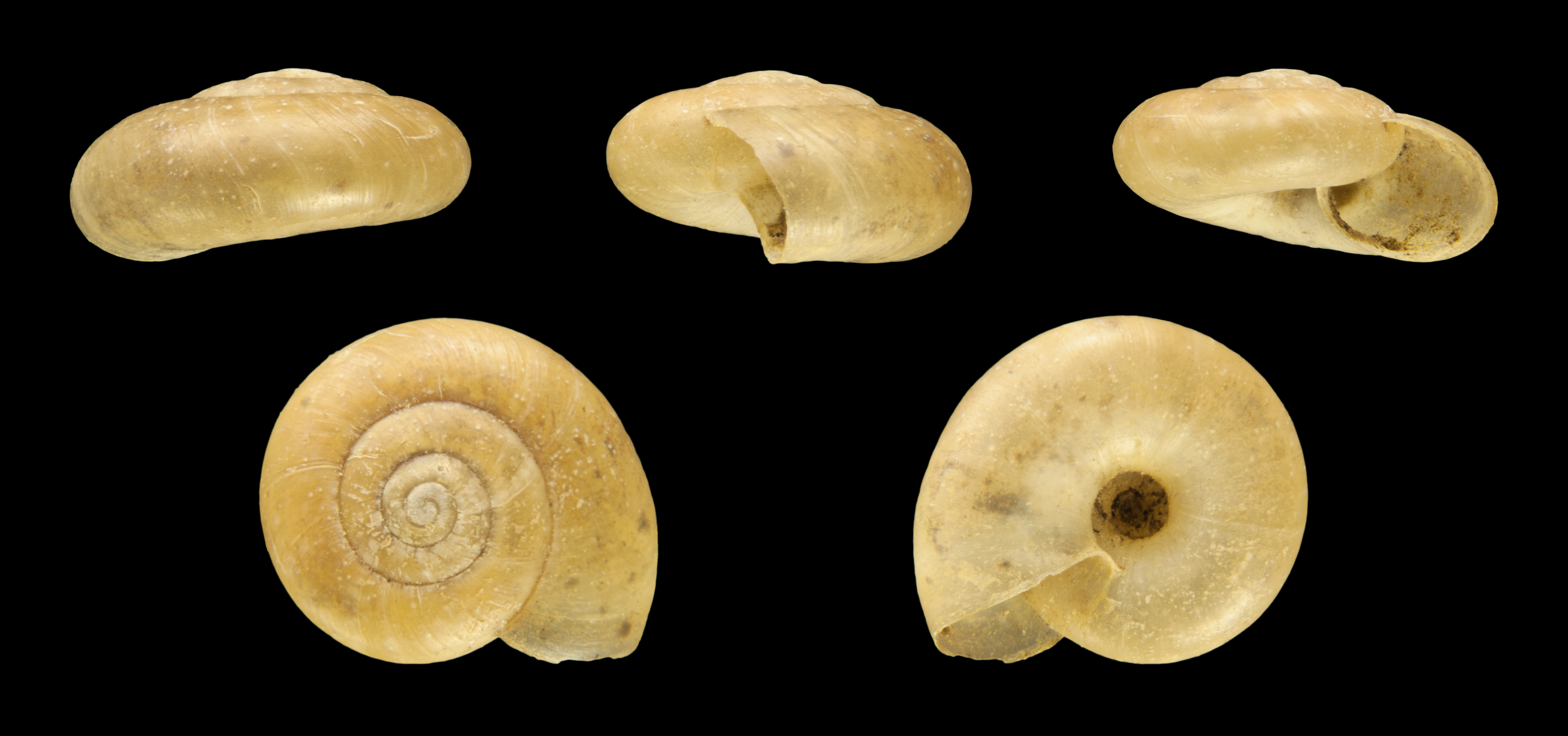 Aegopinella nitidula (Draparnaud, 1805); Diameter 0.8 cm; Originating from Walzbachtal-Jöhlingen, Germany. Shell of own collection, therefore not geocoded.